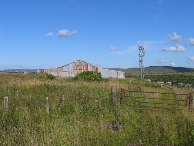 Mobile phone mast & former railway This (ubiquitous) mobile phone mast sits along side the former rail line that carried limestone from Cwar y Hendre to the iron and steel works at Ebbw Vale. Timber sleepers and some of the original stone sleepers can be seen along this bridleway.